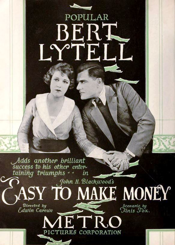 Ad for the American film Easy to Make Money (1919) with Bert Lytell and Gertrude Selby, page 1176 of the August 9, 1919 Motion Picture news.